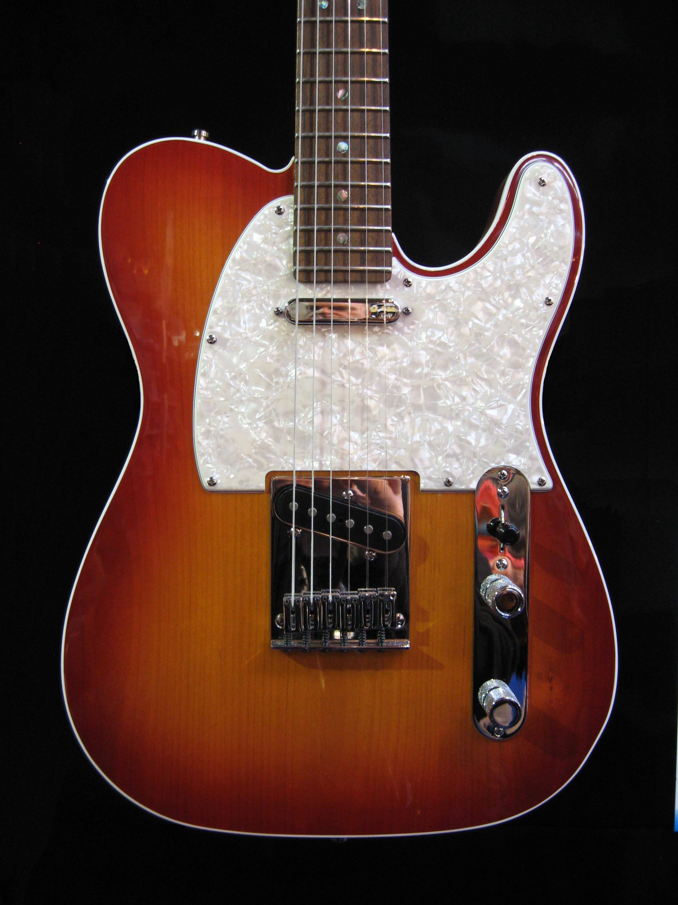 Fender American Deluxe Telecaster Sunburst Body “Watt`s in the neck pickup.”